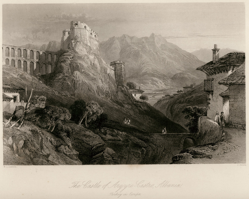 Illustration from Constantinople and the Scenery of the Seven Churches of Asia Minor illustrated…, With an historical Account of Constantinople, and Descriptions of the Plates…, London/Paris, Fisher, Son & Co. (1836-38), by Robert Walsh and Thomas Allom